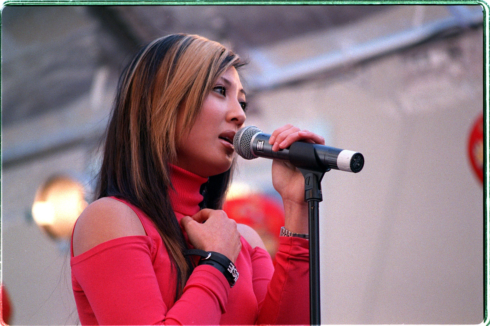 NATALISE, singer during 2004 Chinese New Year's activities in San Francisco. Photo by Nancy Wong